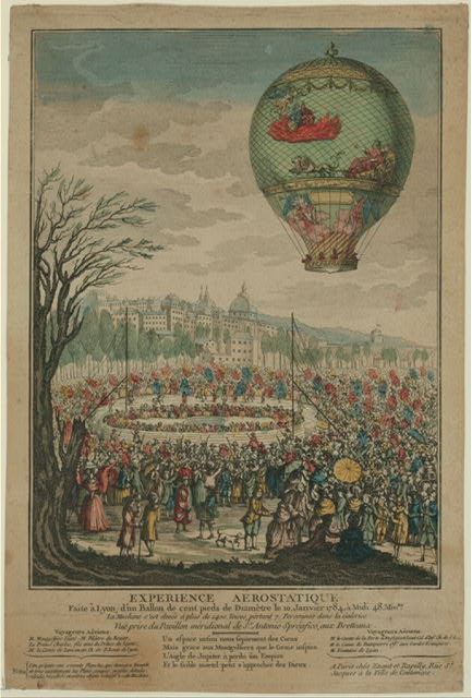 Print shows the balloon, "Le Flesselles" ascending over Lyon, France, on January 19, 1784